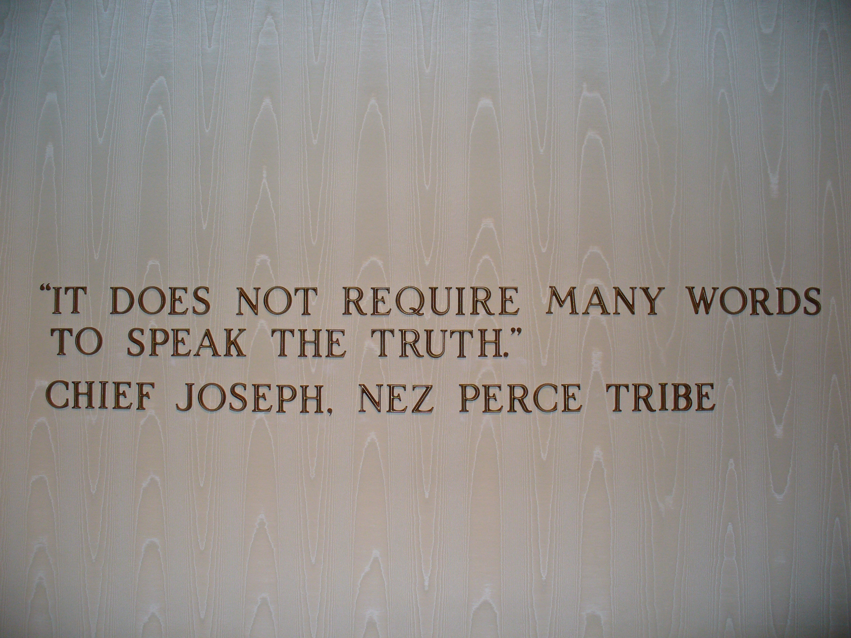 I am the originator of this photo. I hold the copyright. I release it to the public domain. This photo depicts a wall-mounted quote by Chief Joseph in The American Adventure in the World Showcase pavilion of Walt Disney World's Epcot.